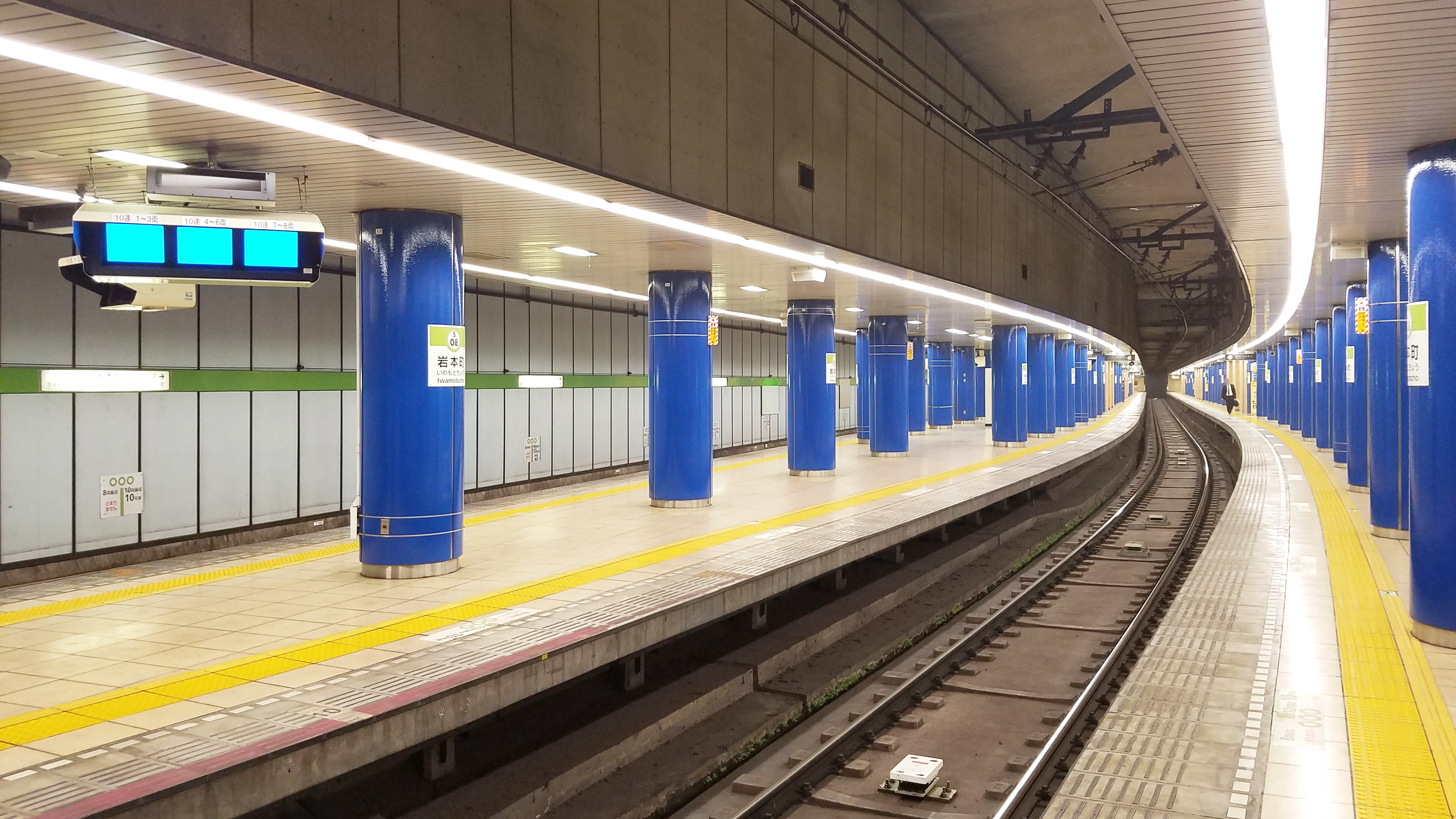 Platforms 1 and 2 (for Ogawamachi and Shinjuku) at Iwamotochō Station on the Toei Shinjuku Line in Chiyoda, Tokyo, Japan